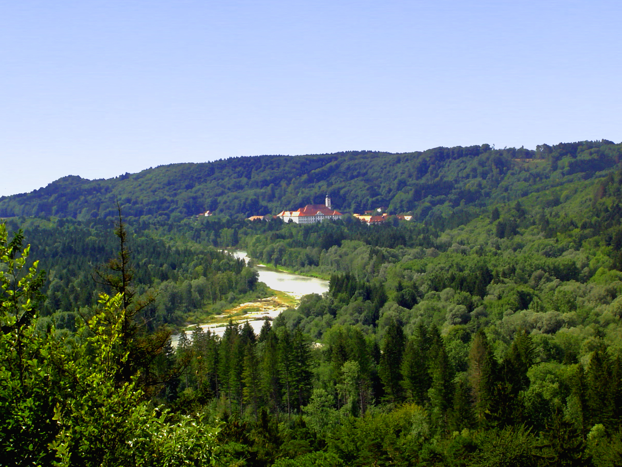 Picture taken from a high place of the Isar valley. You see the river Isar on its way to Munich and the Benedictine monastery.Monastery Schäftlarn II